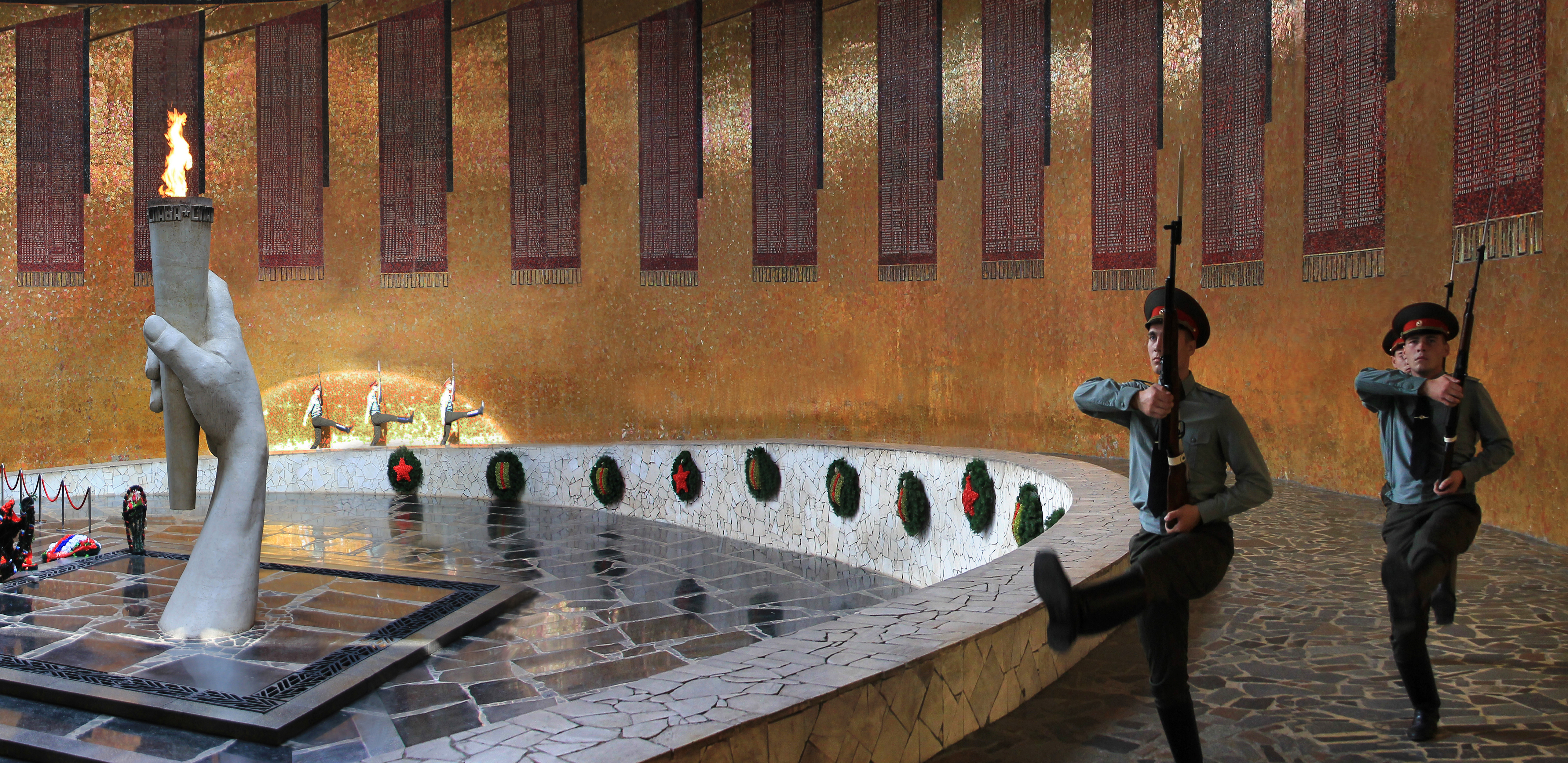 The Eternal Flame in Mamayev Kurgan.Collage. Volgograd, Russia